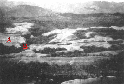 View looking south over Point Cruz, Guadalcanal shows the jumble of sharp-grassed ridges, foothills and mountainous jungle which was Guadalcanal. "A" marks the spot on October 9, 1942 where "Chesty" Puller's U.S. Marine battalion trapped a battalion from the Japanese 4th Infantry Regiment in a ravine (marked with a "B" on the map) and almost annihilated it. Modified by user:cla68 on 19 Mar 07.